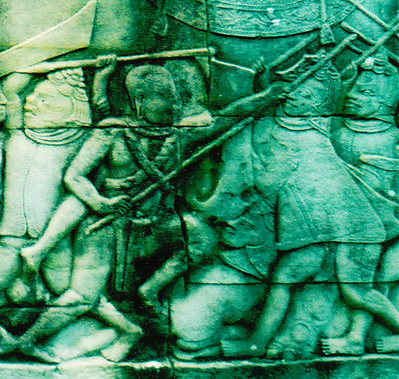 Khmer warrior knees an opponent and strikes another opponent with his staff.